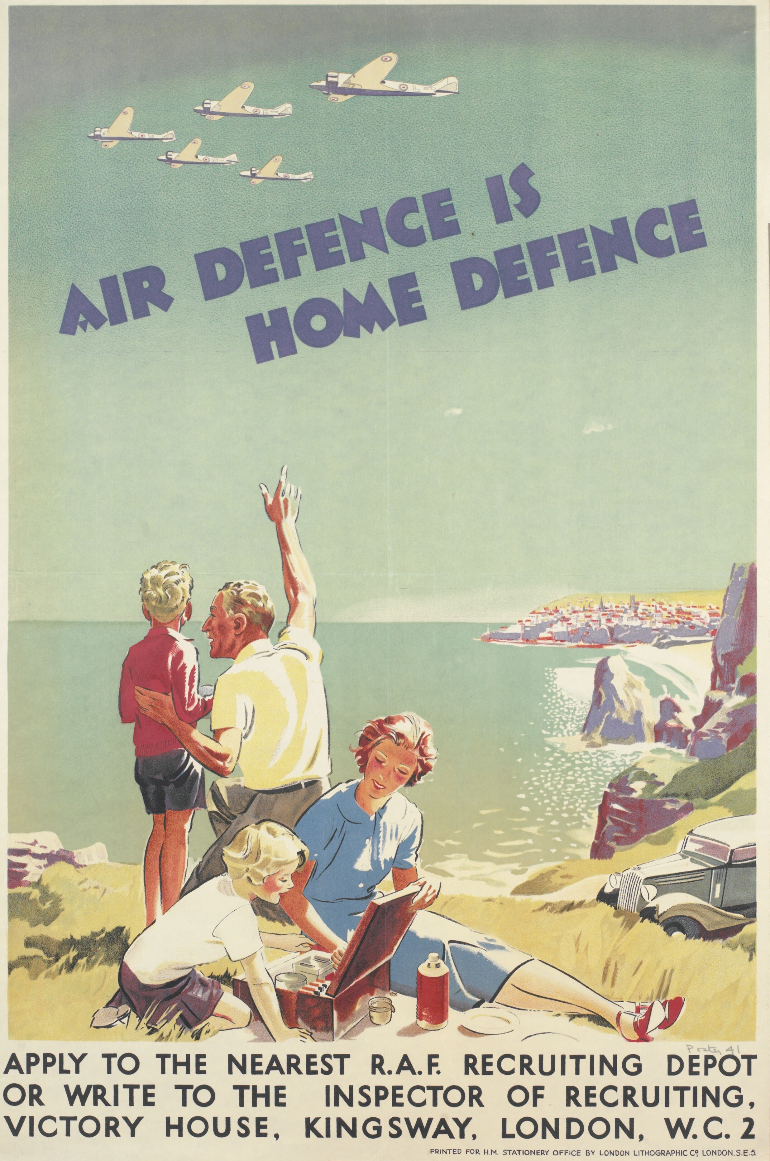 Air Defence is Home Defence whole: the image occupies the majority, with the title integrated and positioned in the upper half, in blue. The text is separate and placed across the bottom edge, in black, set against a white background. image: a depiction of a family having a picnic on a cliff top by the sea. The mother and daughter sit with a hamper, while the father points out to his son five RAF aircraft passing in formation overhead. The family's car is parked in the background, and a small town is visible in the distance across the bay. text: AIR DEFENCE IS HOME DEFENCE APPLY TO THE NEAREST R.A.F. RECRUITING DEPOT OR WRITE TO THE INSPECTOR OF RECRUITING, VICTORY HOUSE, KINGSWAY, LONDON, W.C.2 PRINTED FOR H.M. STATIONERY OFFICE BY LONDON LITHOGRAPHIC Co, LONDON. S.E.5.